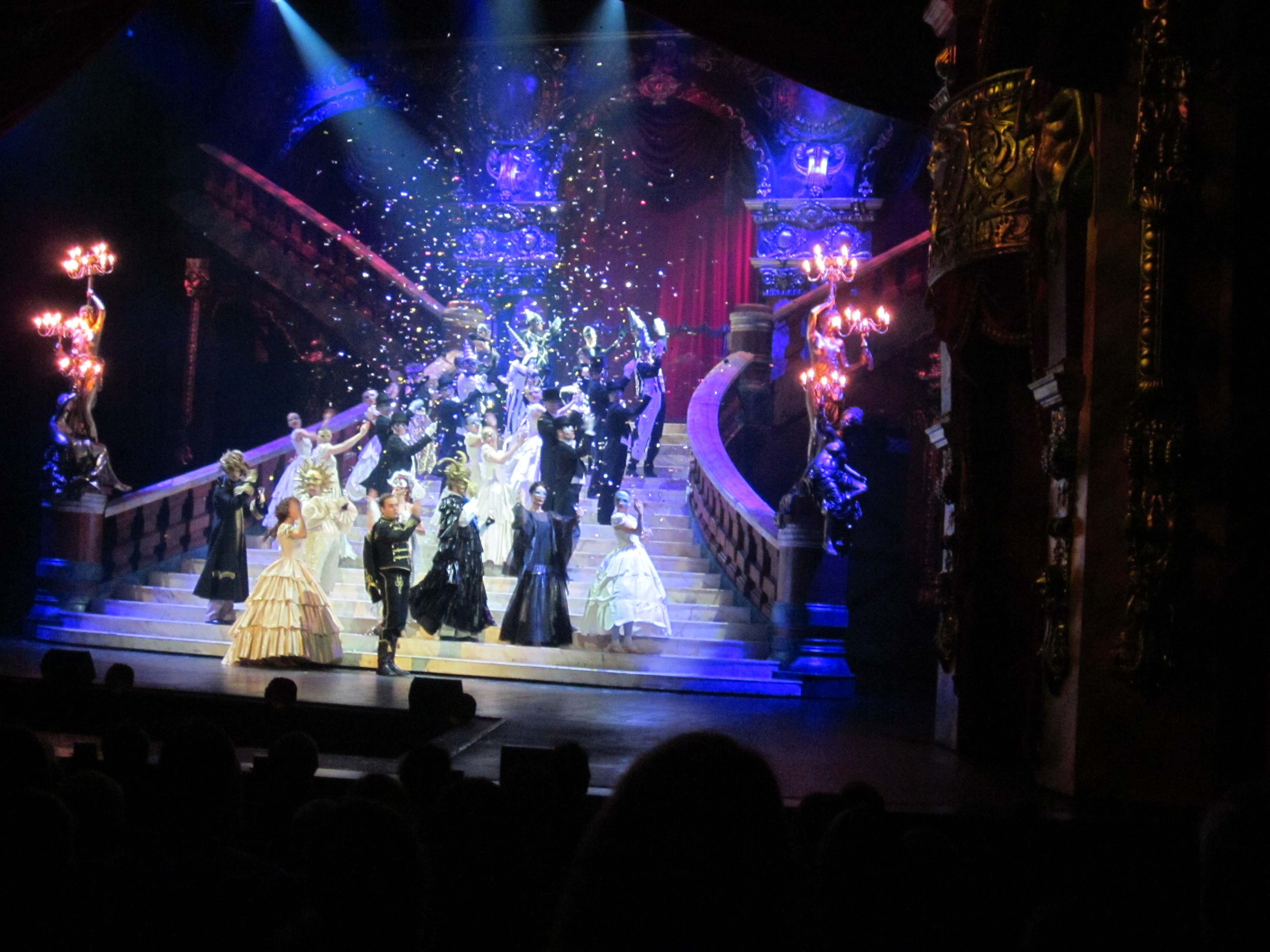 The Phantom of the Opera - musical with music by Andrew Lloyd Webber played in Opera Podlaska.